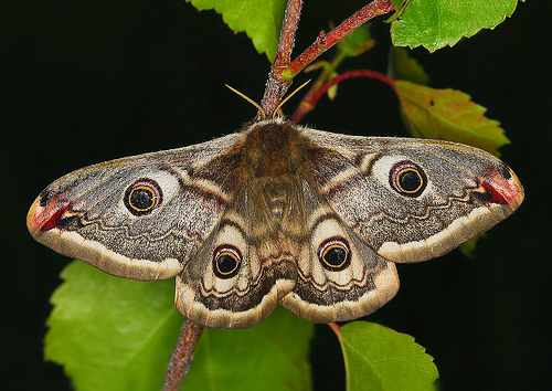 Moth - Eudia pavonia